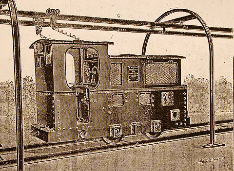 Belgian overhead wire mining locomotive of 1897.